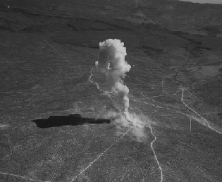 Little Feller I. Mushroom cloud. The top of the cloud formed by Little Feller I reached 11,000 feet and moved north-northwest from the point of detonation.